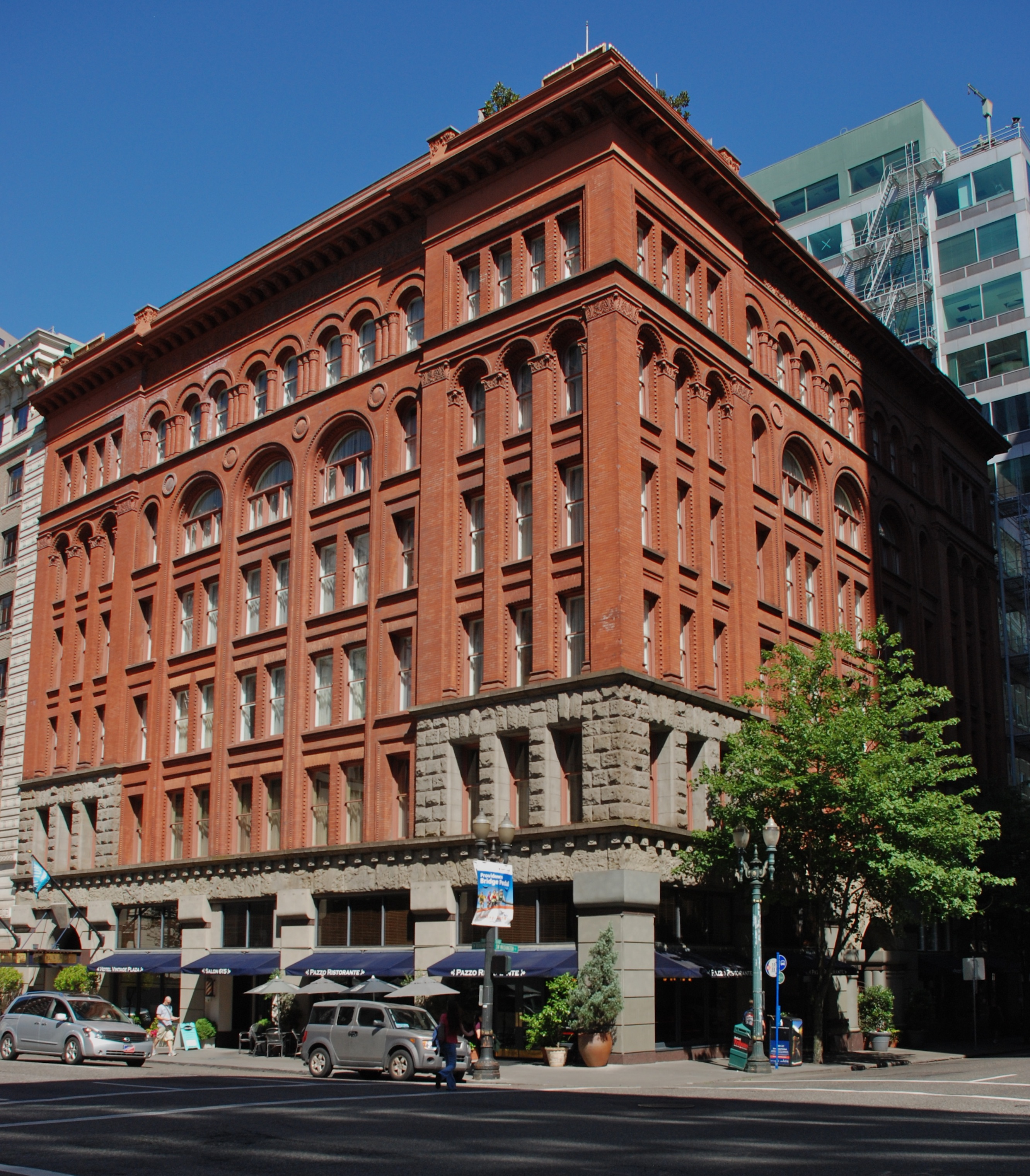 The Hotel Vintage Plaza, formerly the Imperial Hotel at 422-426 Southwest Broadway, Portland, Oregon, United States, is listed on the US National Register of Historic Places (NRHP) under the Imperial name. Photo is taken from the southwest, from across Broadway at Washington Street. NRHP reference number 85003037